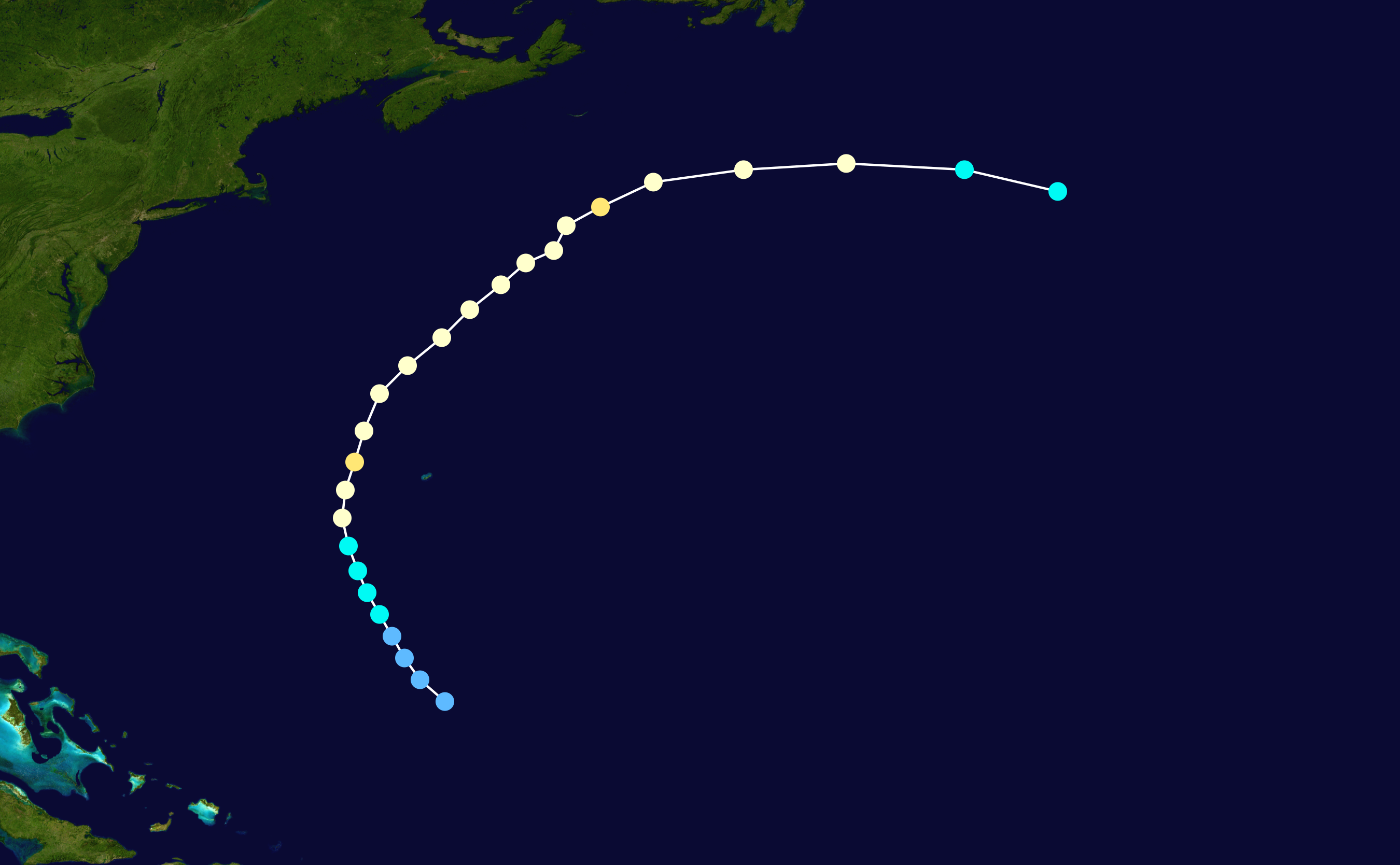 Track map of Hurricane Humberto of the 2001 Atlantic hurricane season. The points show the location of the storm at 6-hour intervals. The colour represents the storm's maximum sustained wind speeds as classified in the Saffir–Simpson scale (see below), and the shape of the data points represent the nature of the storm, according to the legend below. Saffir–Simpson scale Tropical depression≤38 mph≤62 km/h Category 3111–129 mph178–208 km/h Tropical storm39–73 mph63–118 km/h Category 4130–156 mph209–251 km/h Category 174–95 mph119–153 km/h Category 5≥157 mph≥252 km/h Category 296–110 mph154–177 km/h Unknown Storm type Tropical cyclone Subtropical cyclone Extratropical cyclone / Remnant low / Tropical disturbance / Monsoon depression